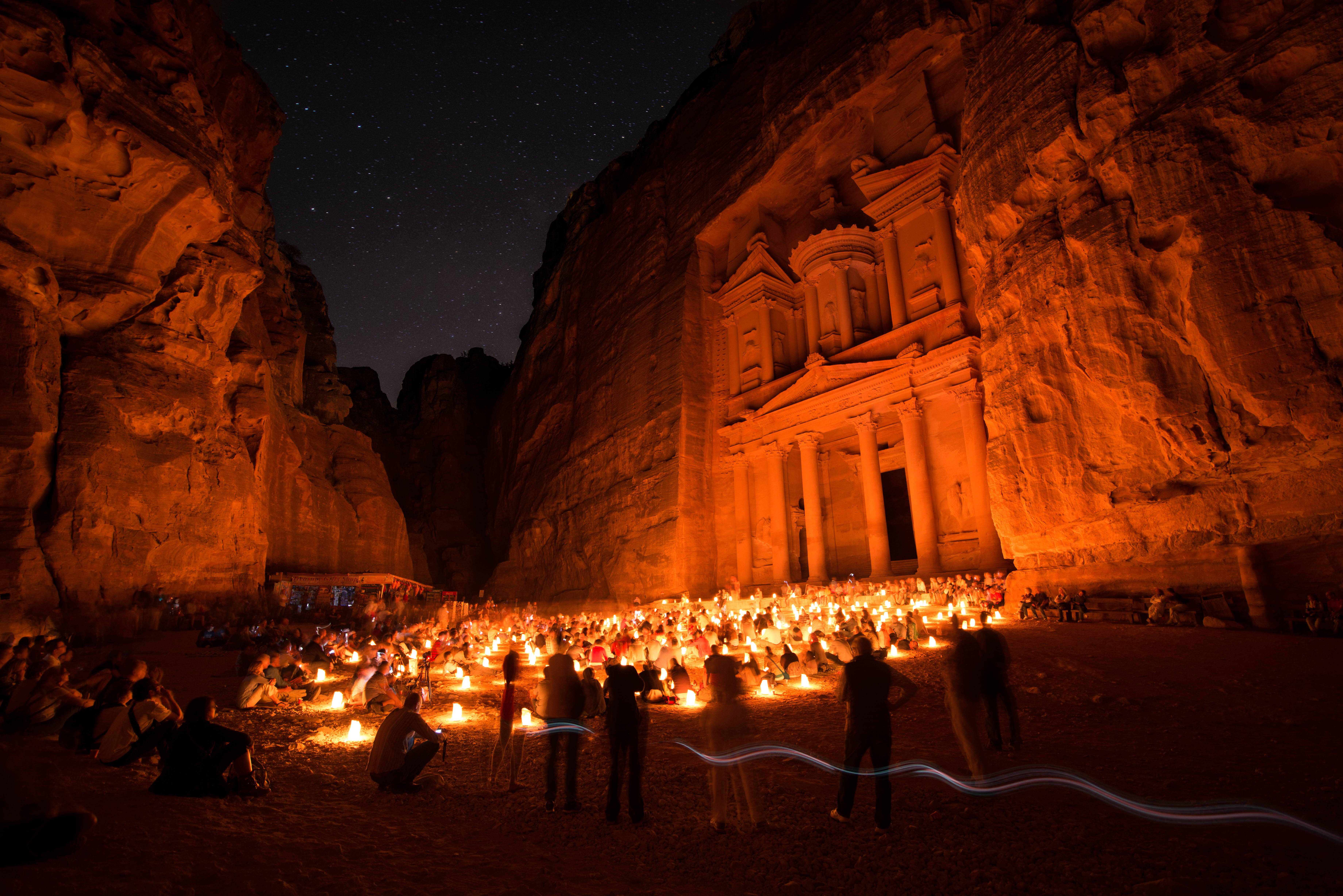 Ad Deir (Monastery), Petra